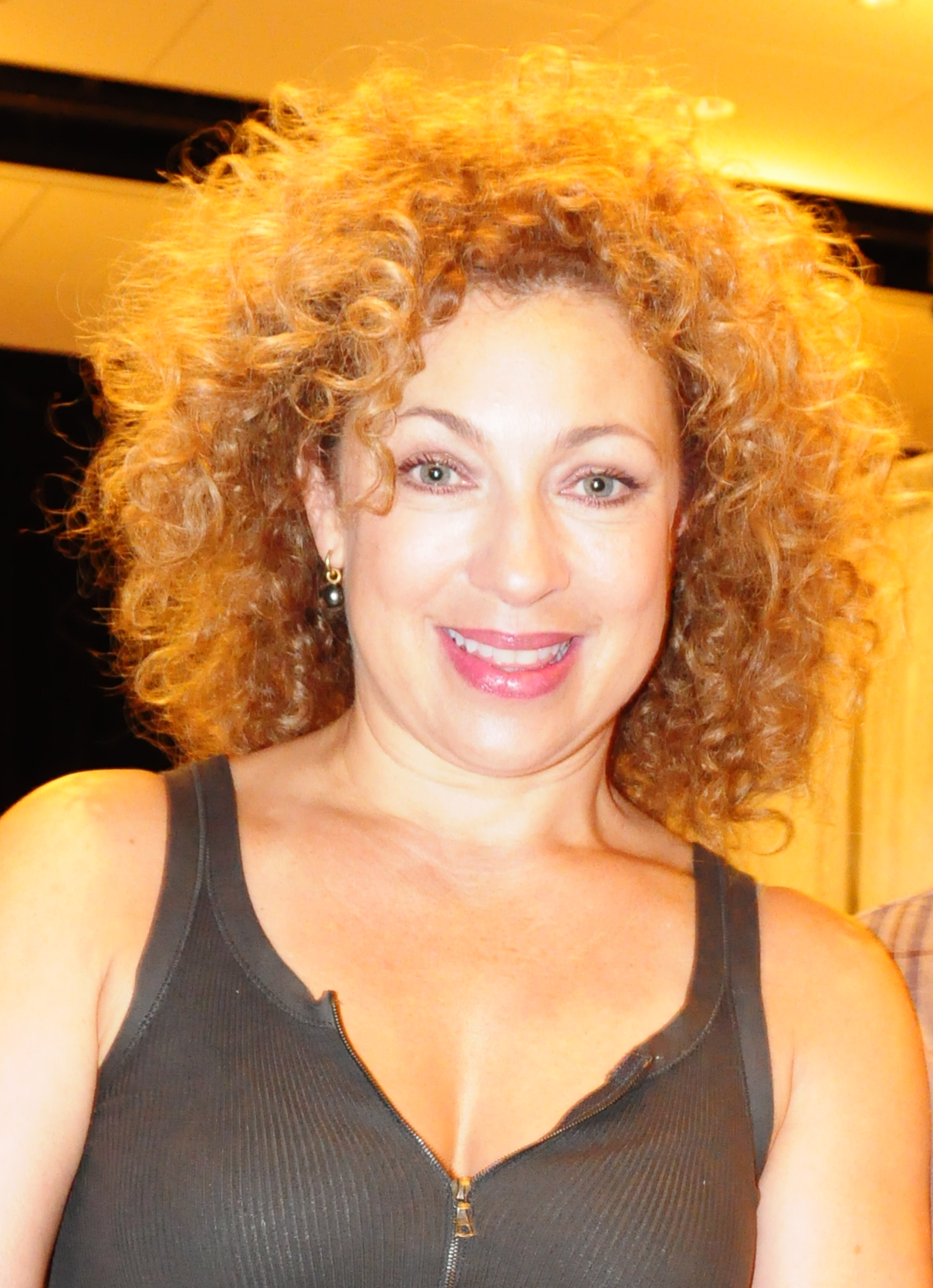 Alex Kingston at Florida supercon 2012